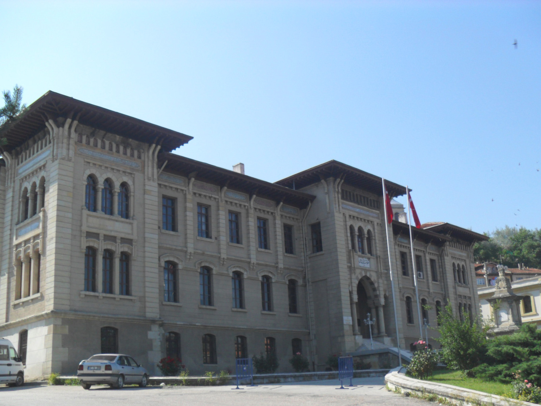 Governor's office in Kastamonu